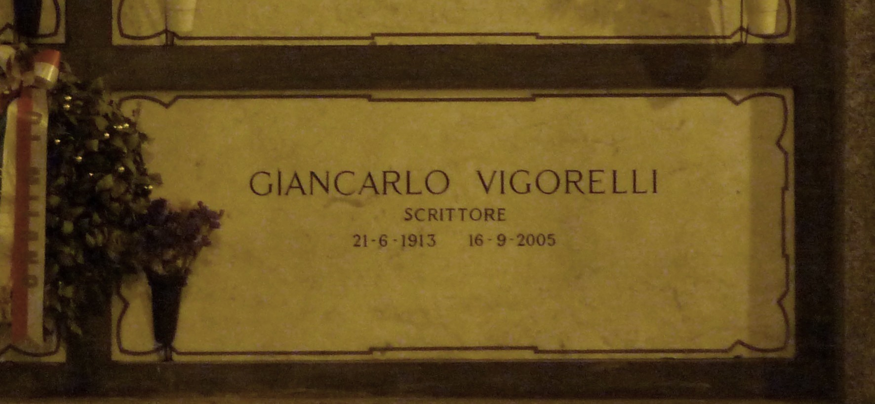 The grave of Italian author Giancarlo Vigorelli at the Monumental Cemetery of Milan, Italy.